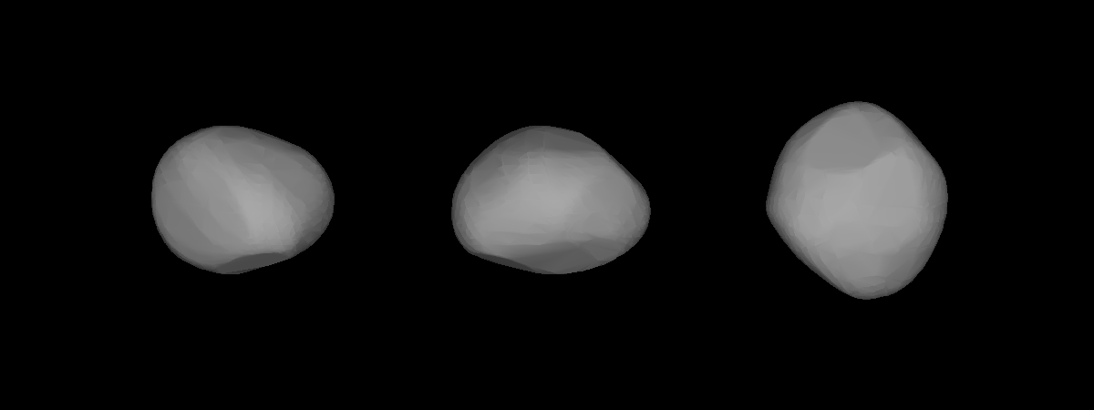 A three-dimensional model of 88 Thisbe that was computed using light curve inversion techniques.